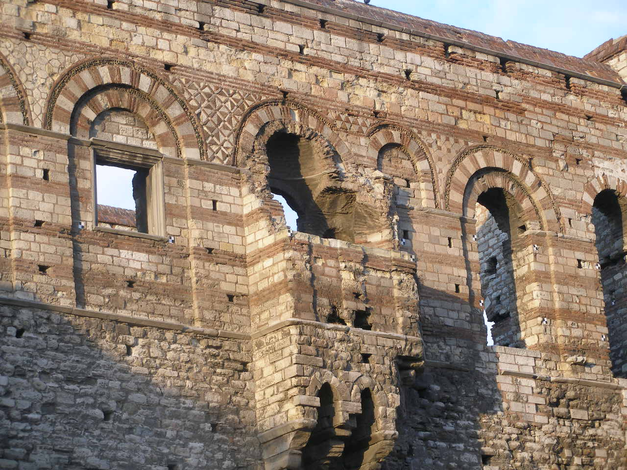 The Palace of Porphyrogenitus, chapel on southern wall.